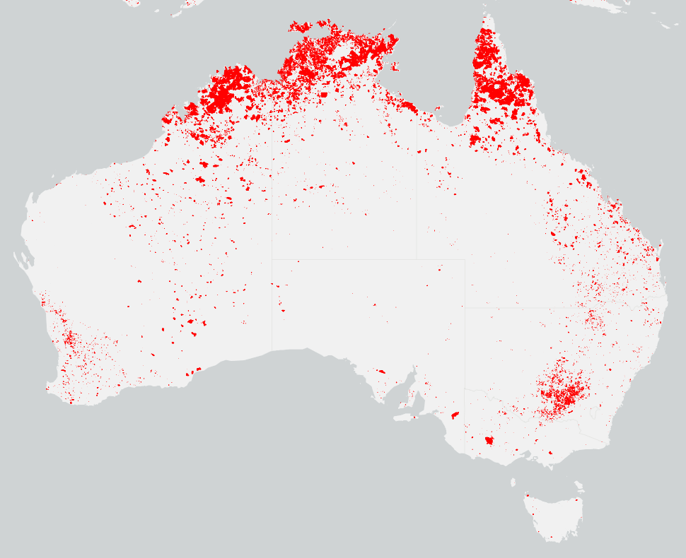 Burned areas shown in red detected by NASA's MODIS imaging sensors onboard Terra & Aqua satellites from June 2005 to May 2006. We acknowledge the use of data and imagery from LANCE FIRMS operated by NASA's Earth Science Data and Information System (ESDIS) with funding provided by NASA Headquarters.